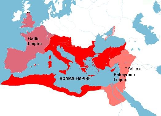 The Roman Empire around the year 271 AD, with the break away Gallic Empire in the West and the break away Palmyrene Empire in the East.